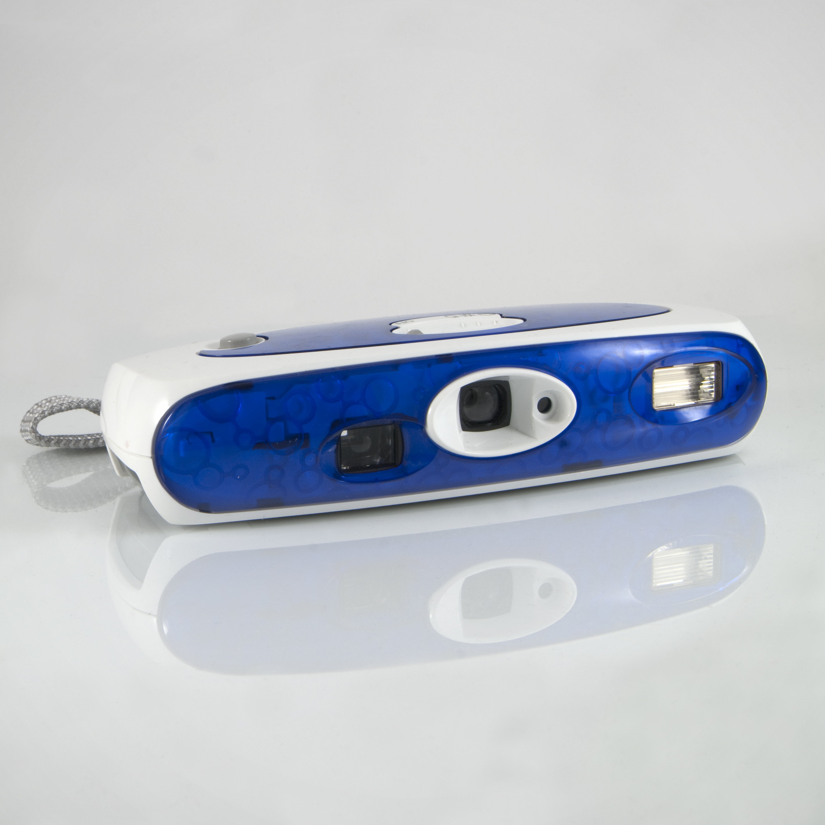 Polaroid i-Zone camera. Using izone200 instant film, it produced 12 1.5" x 1" images per role.